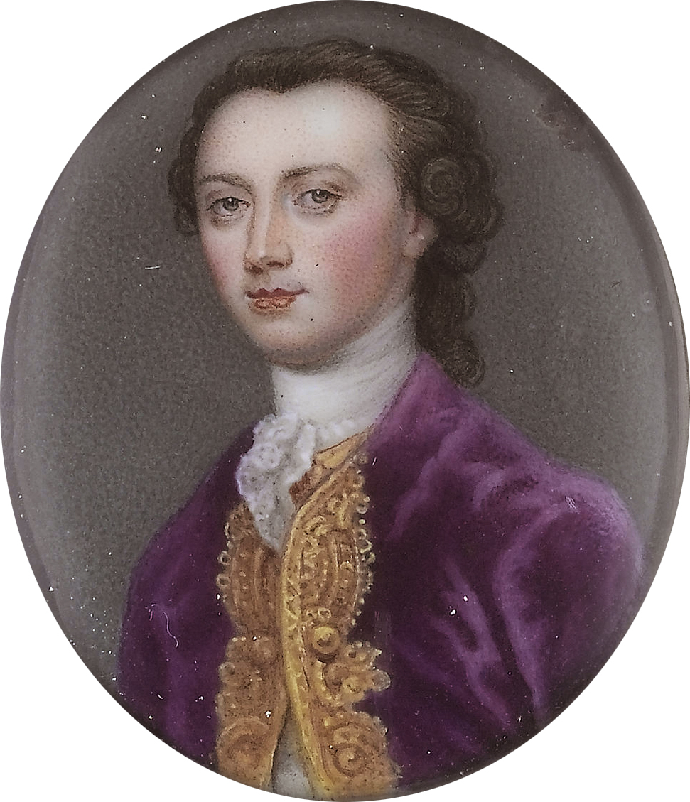 Portrait of William Bentinck, 2nd Duke of Portland (1709–1762)